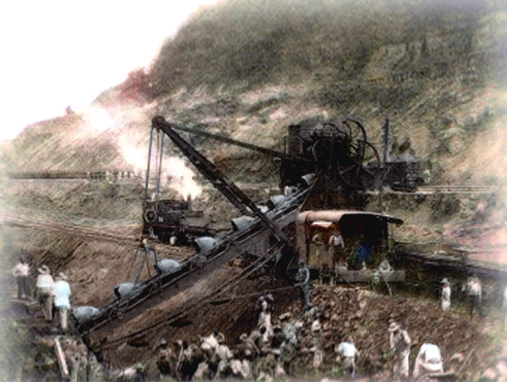 Universal Interoceanic Canal Company at the foot of the Gold Hill in the Culebra Cut 1896. Inadequate machinery, such as the tiny dump cars and the Small Belgian Locomotive Shown here contributed to the failure of the French in the valiant effort to link the Atlantic and the pacific. This photo of an old bucket excavator at work in Culebra Cut at the foot of Gold Hill was made in 1896.